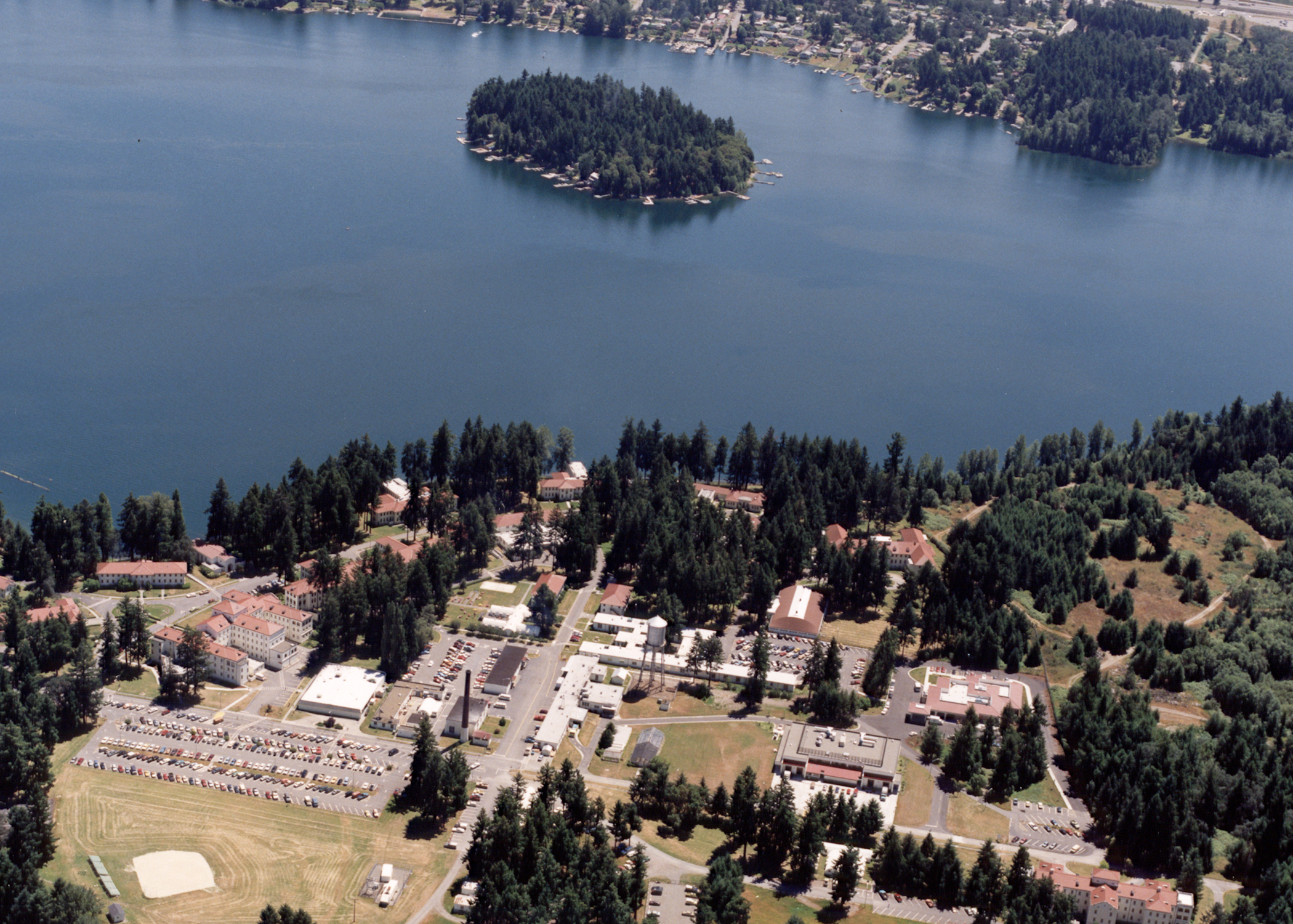 American Lake Division 9600 Veterans Drive Tacoma, WA 98493 253-582-8440 800-329-8387